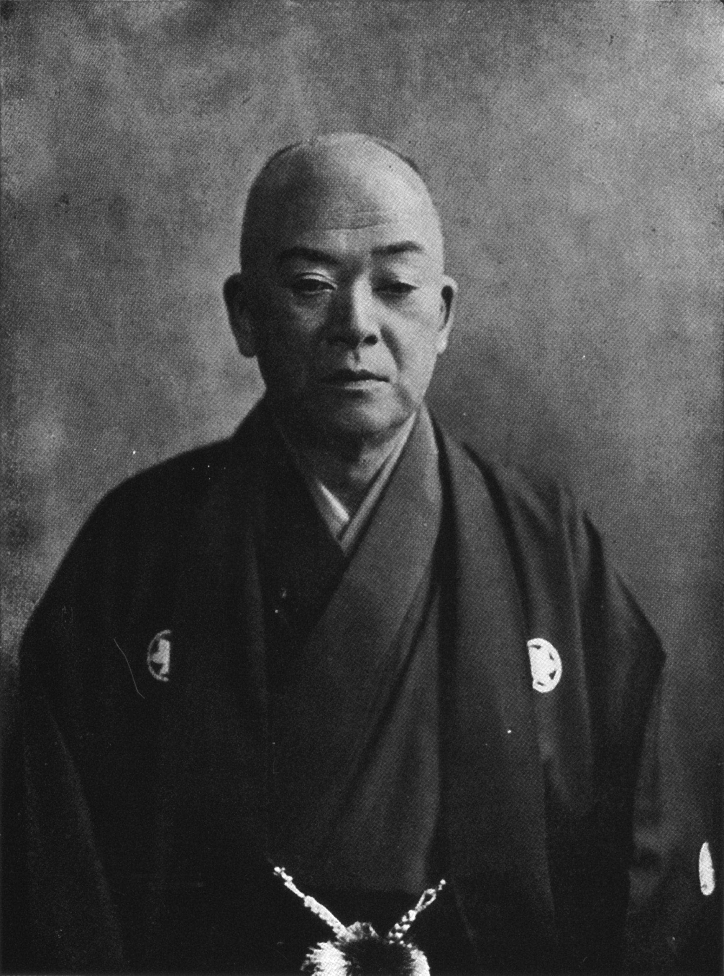 Japanese No actor UMEWAKA Mansaburo 1st(1869 - 1946)